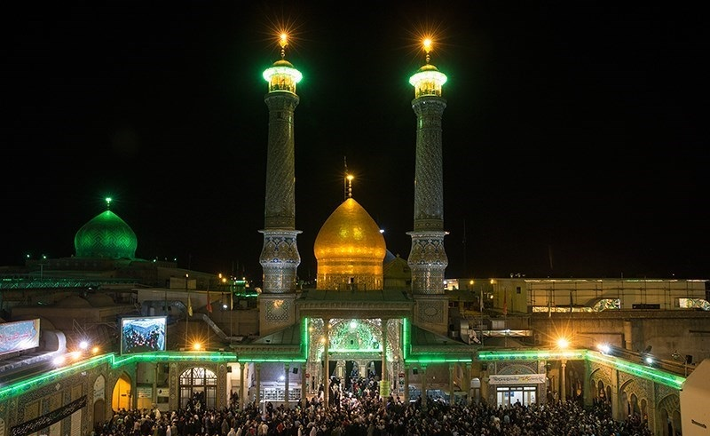 Tahvil-e Saal of Nowuz 2018 (1397 SH) in Shah-Abdol-Azim shrine, Rey. full gallery